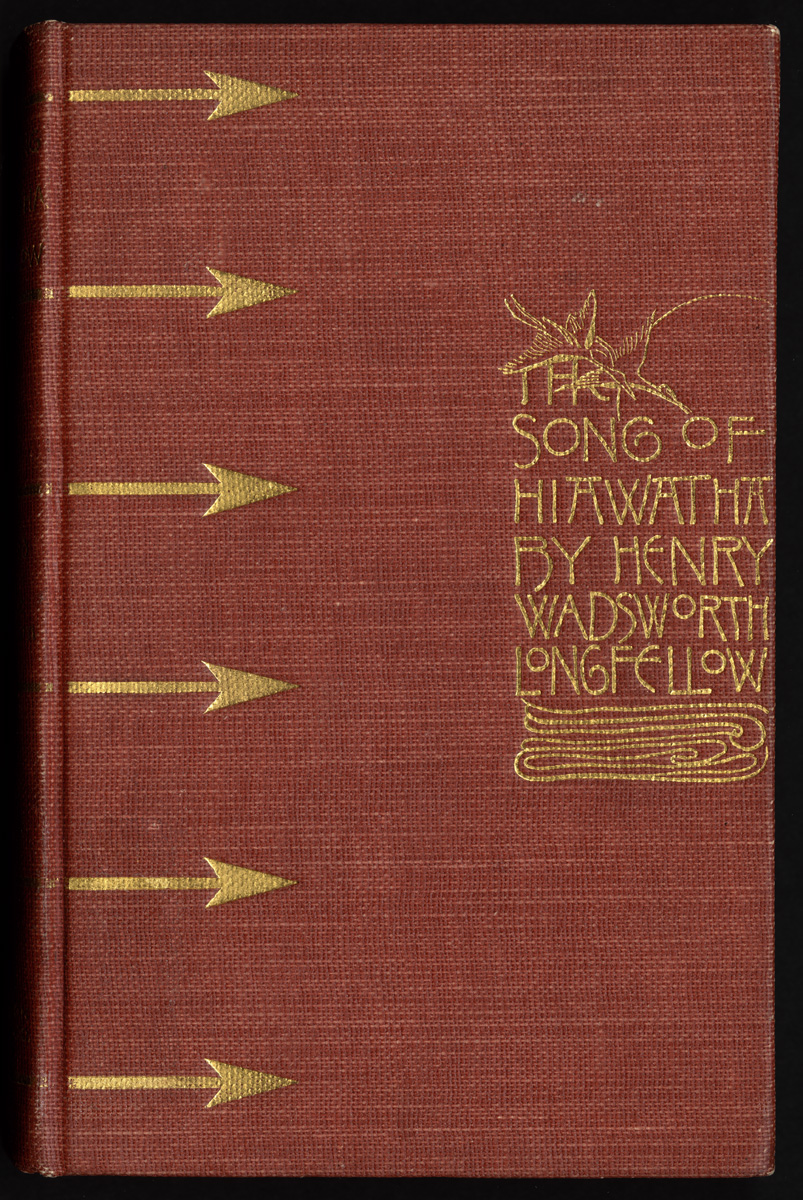 File name: 06_04_000011Title: LONGFELLOW(1895) The song of HiawathaDate issued: 1895Genre: Book coversNotes: Longfellow, Henry Wadsworth, 1807-1882 (Author)Collection: Sarah Wyman Whitman BindingsLocation: Boston Public Library, Special CollectionsRights: No known copyright restrictions.